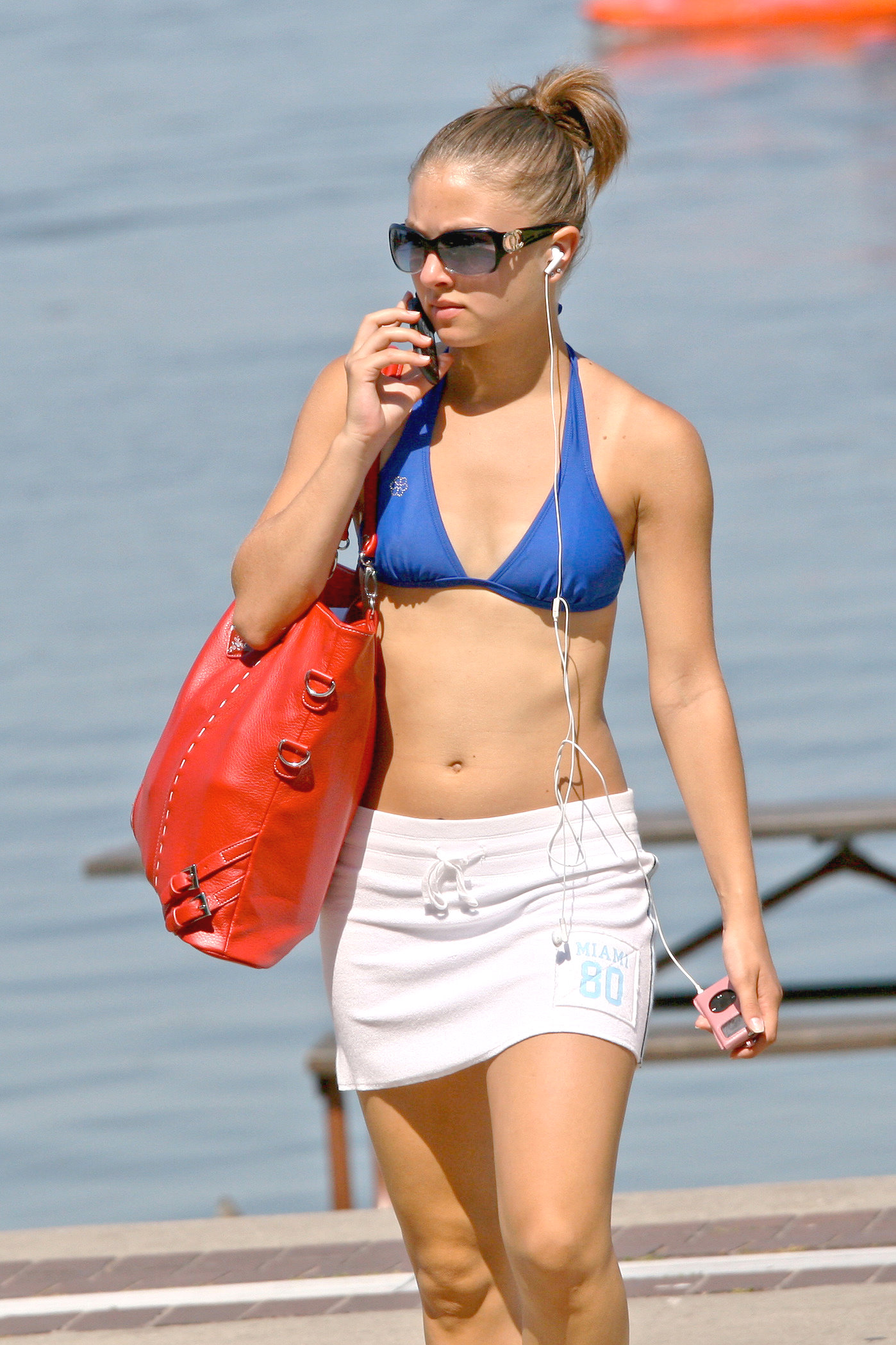 Young woman walking along Memorial Union terrace, Madison, Wisconsin, USA. She is wearing a white miniskirt, a blue bikini top, and sunglasses.